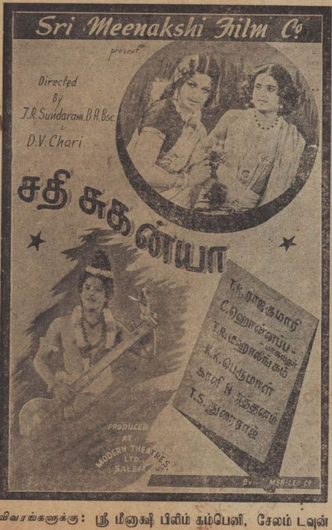 Poster for the 1942 South Indian Tamil film Sathi Sukanya